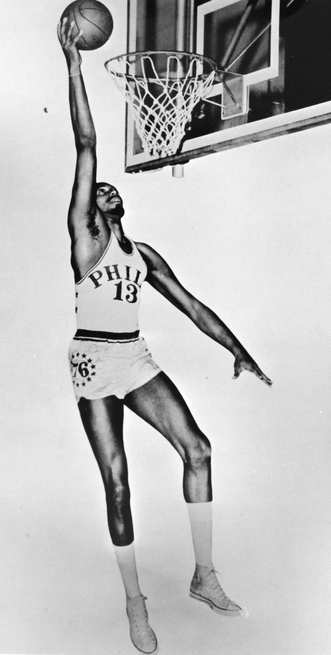 Professional basketball player Wilt Chamberlain